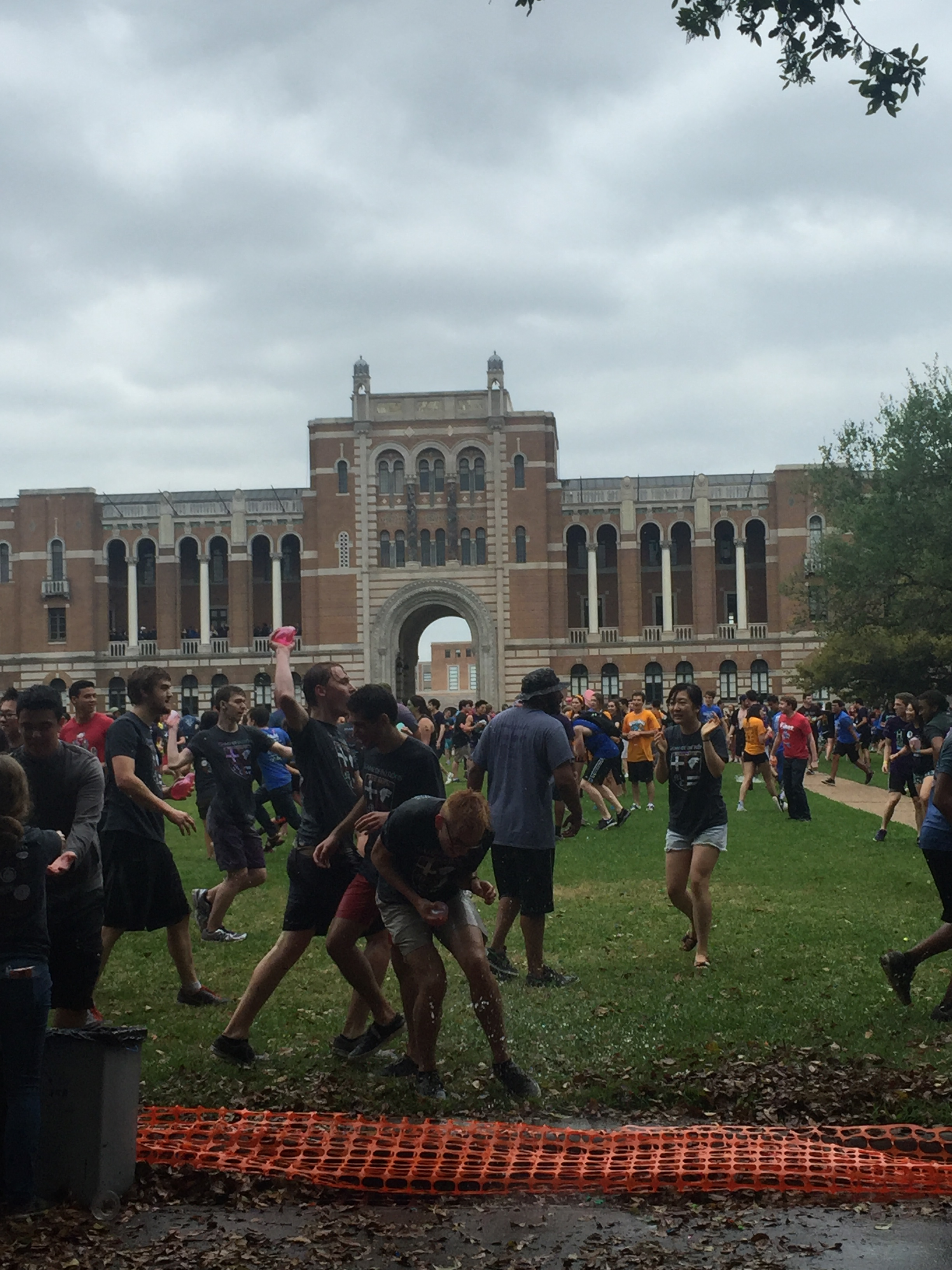 A view of the Sallyport at Rice University during the Beer Bike water balloon fight as part of Beer Bike 2016.